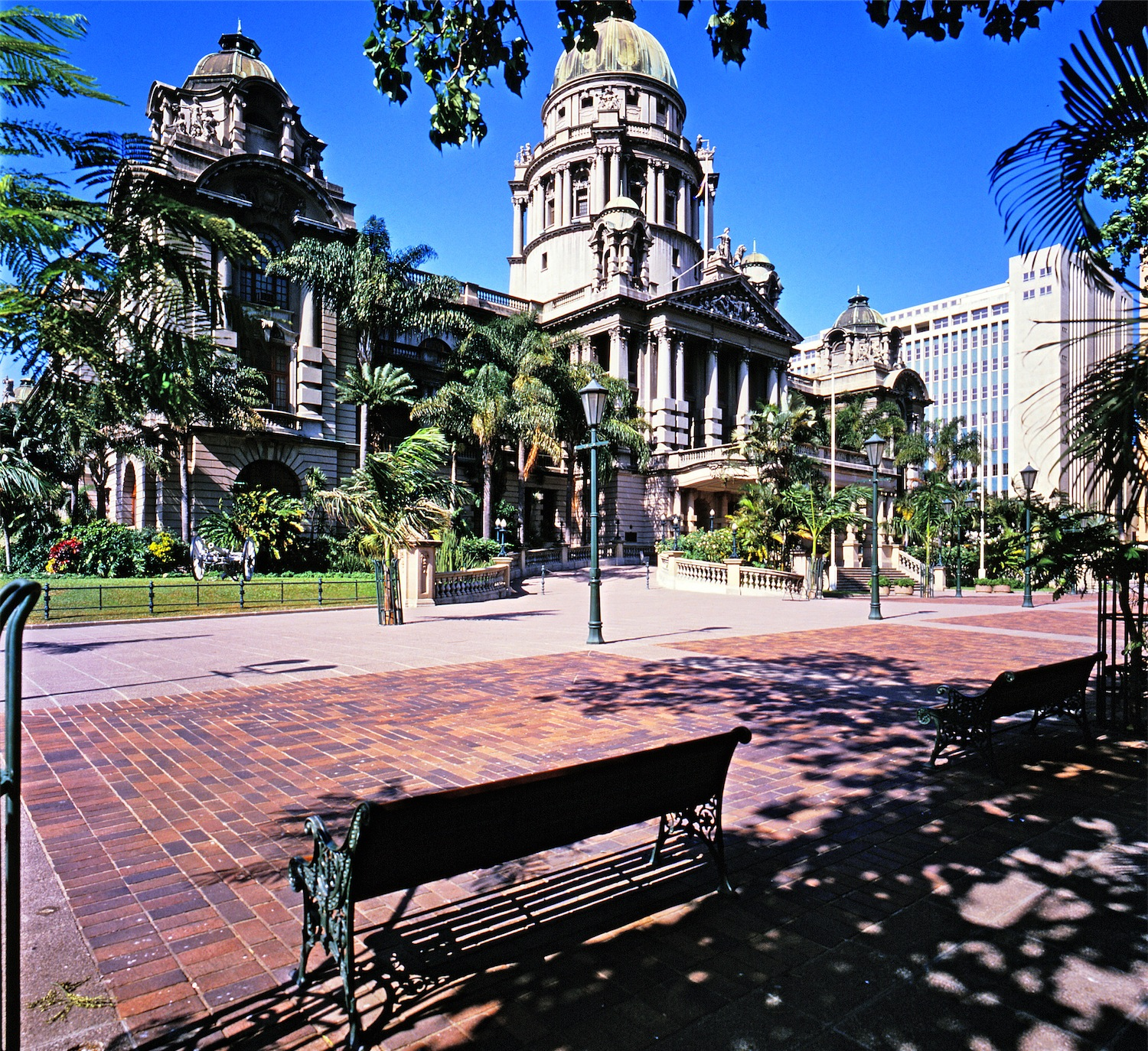 This media shows a South African Protected Site with SAHRA file reference 9/2/407/0010.